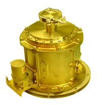 "GRS measures gamma rays emitted by the nuclei of atoms on Mercury’s surface that are struck by cosmic rays. Each element has a signature emission, and the instrument will look for geologically important elements such as hydrogen, magnesium, silicon, oxygen, iron, titanium, sodium, and calcium. It may also detect naturally radioactive elements such as potassium, thorium, and uranium. "